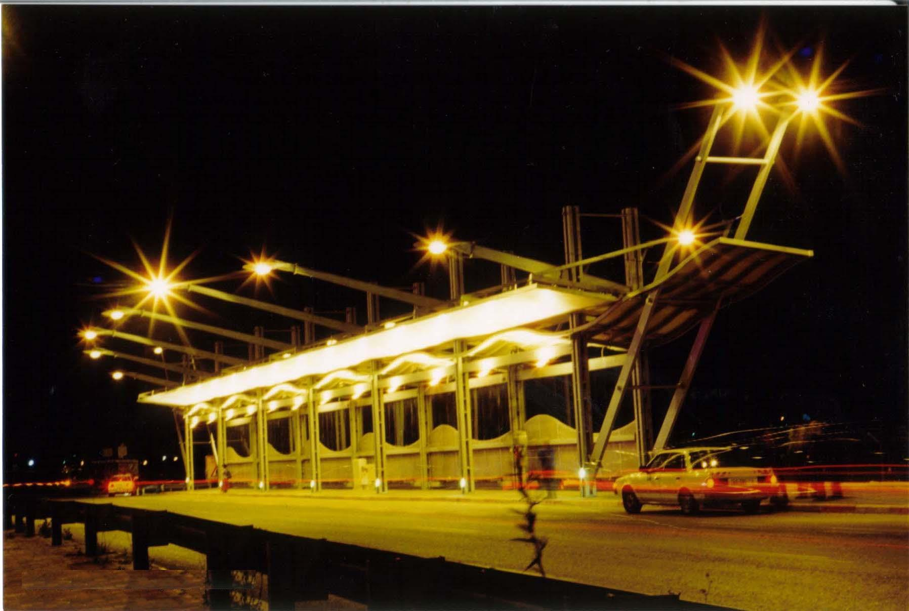 Bodek Architects Highway 44 station